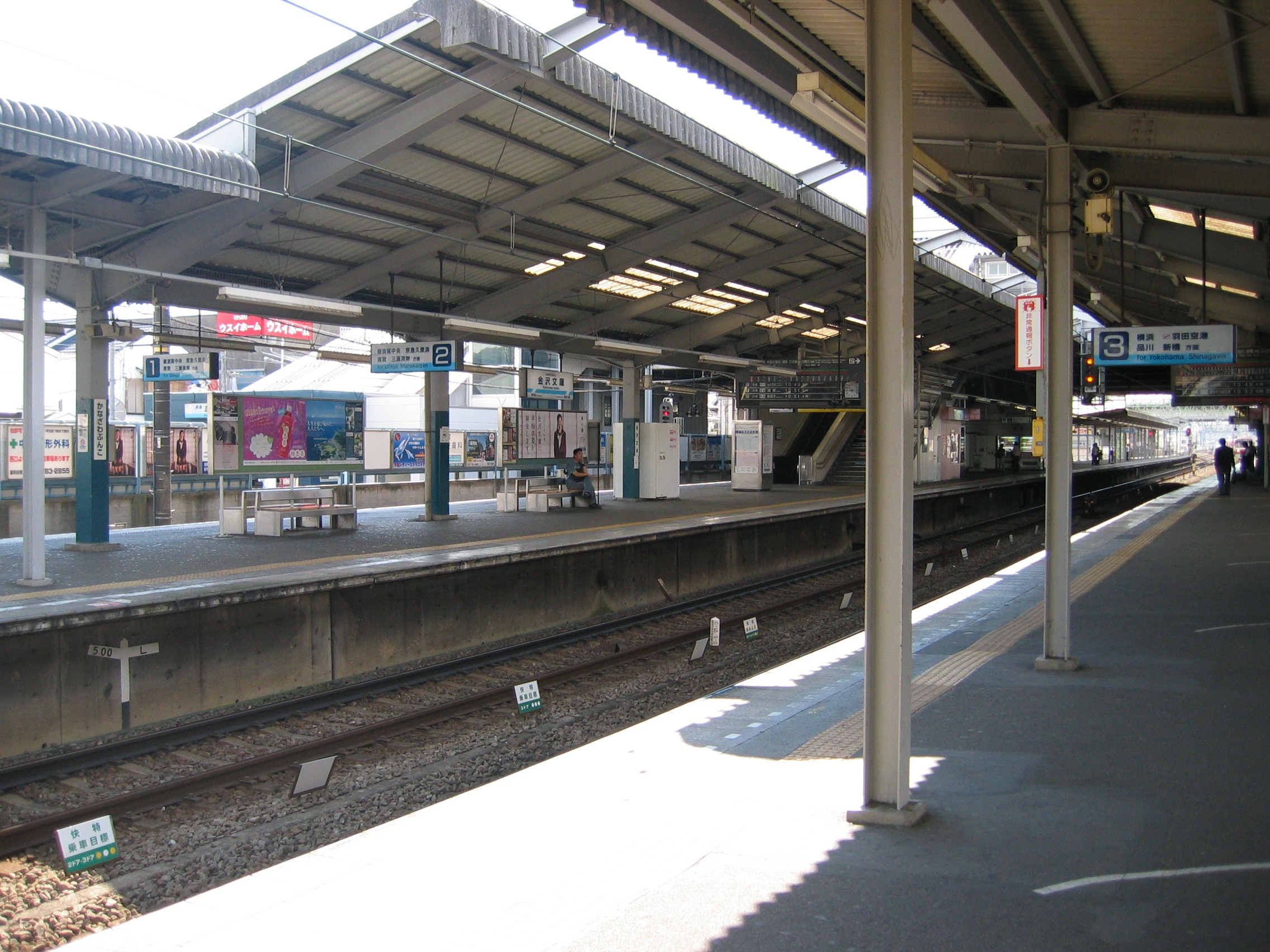 The platforms at Kanazawa-Bunko Station on the Keikyu Main Line in Yokohama, Japan